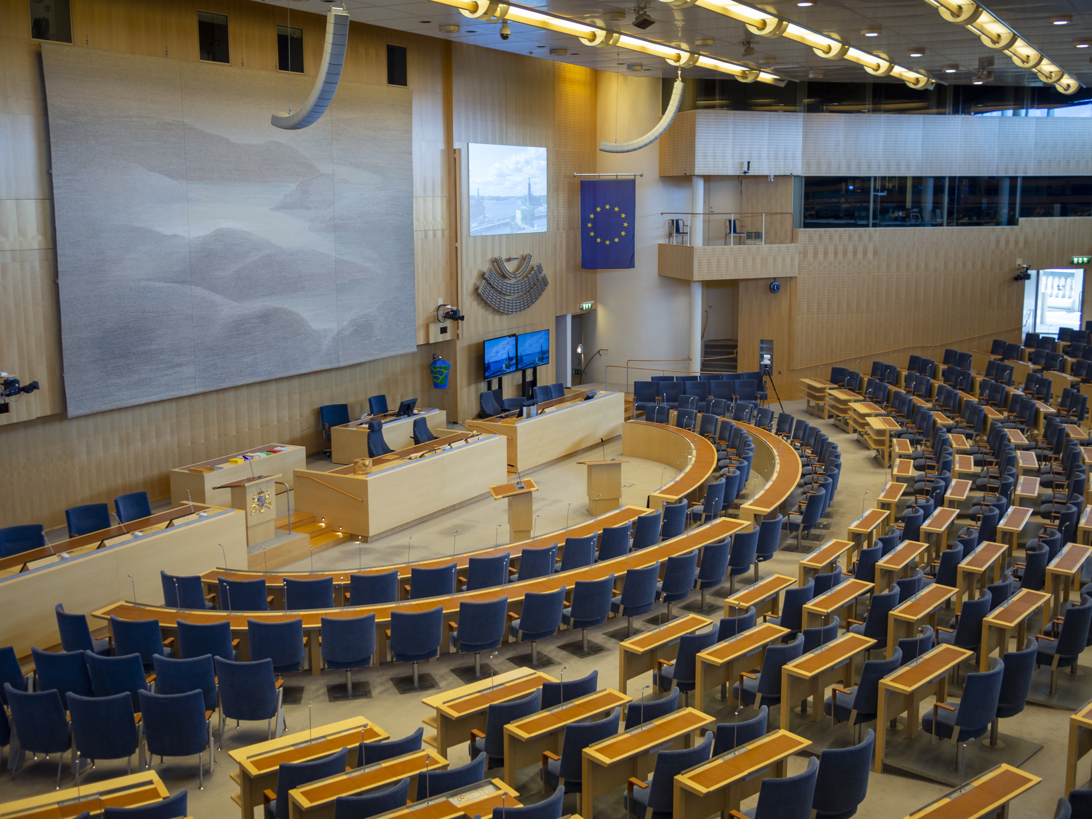 Impressions from the Swedish Parliament (Sveriges riksdag), taken during Wikimania 2019.